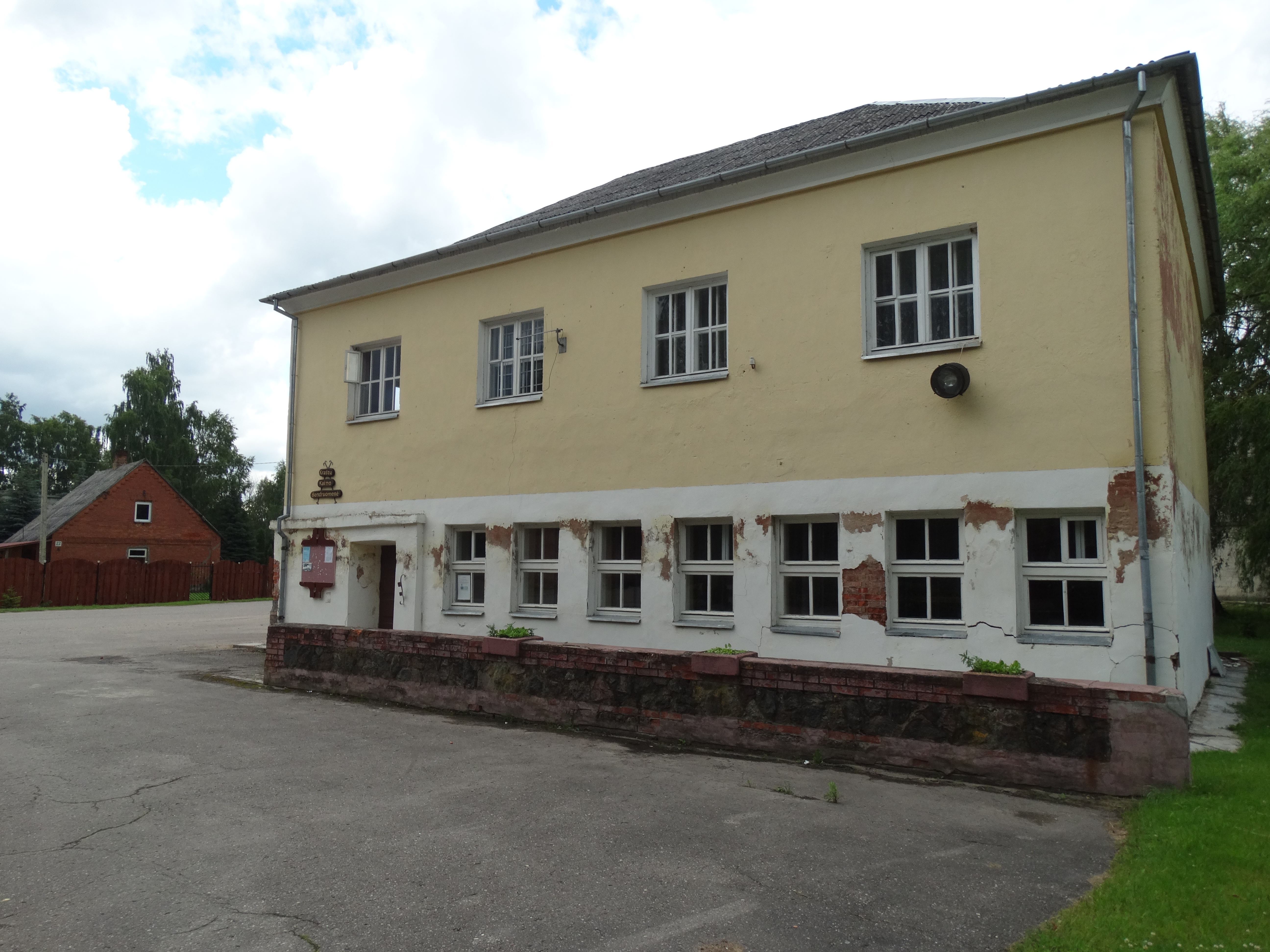 Community house, Kraštai, Pasvalys District, Lithuania